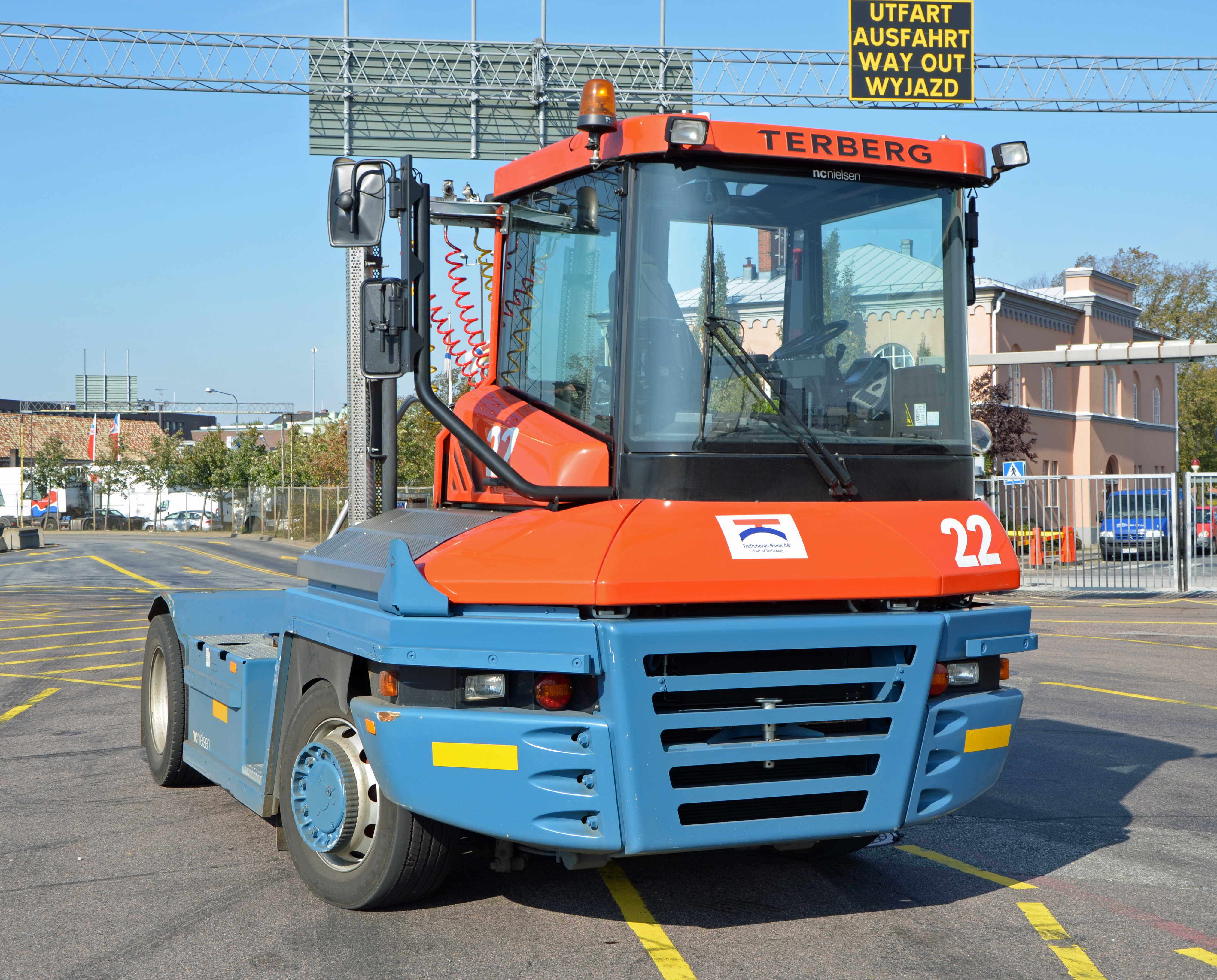 Terberg ncnielsen